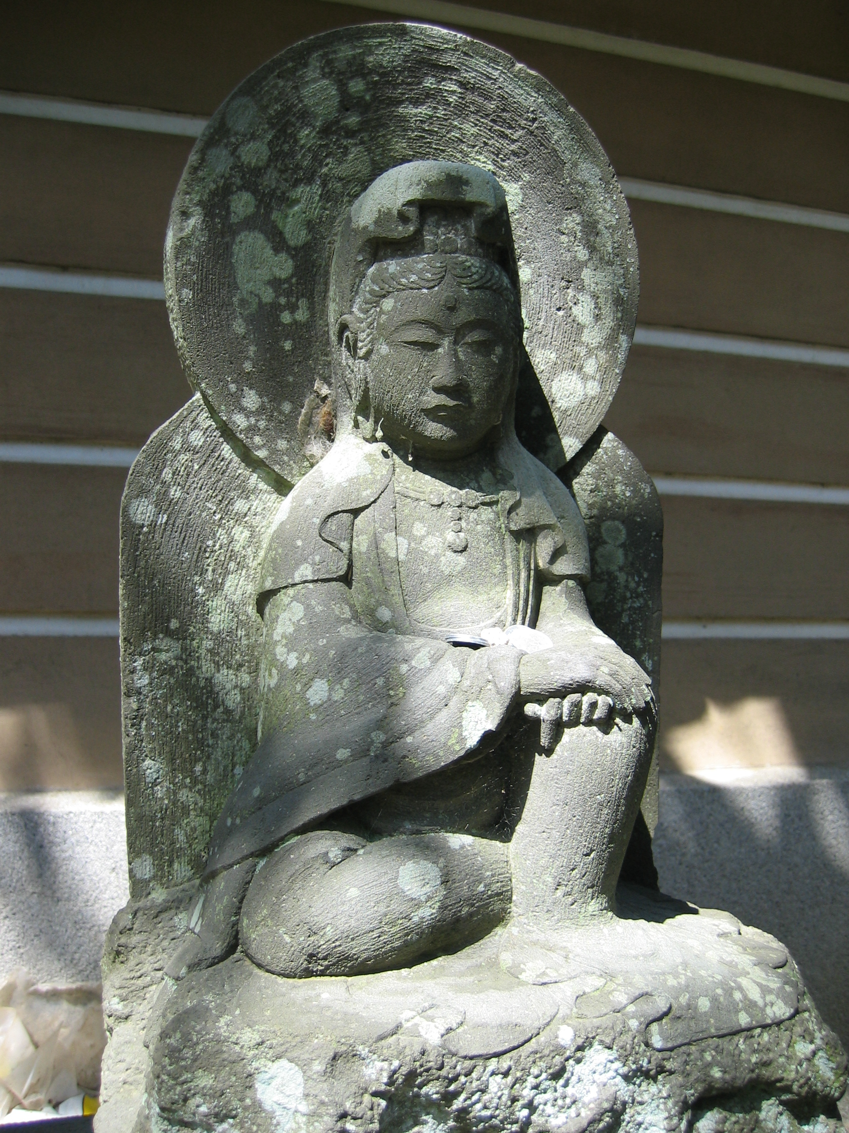 A stone carving at Engaku-ji Temple in Kamakura, Kanagawa, Japan.